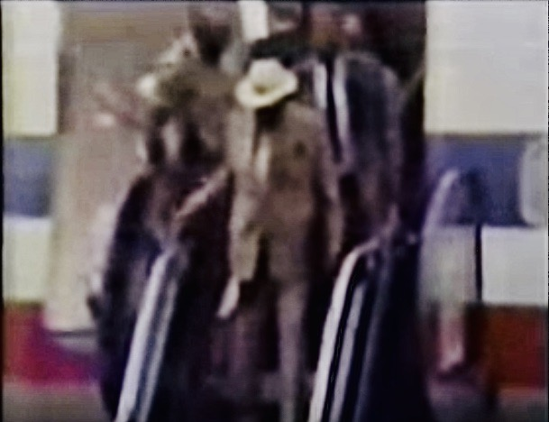 President Magloire return in Haiti